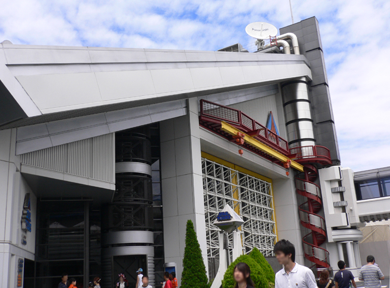 Star Tours (Tokyo Disneyland Attraction)